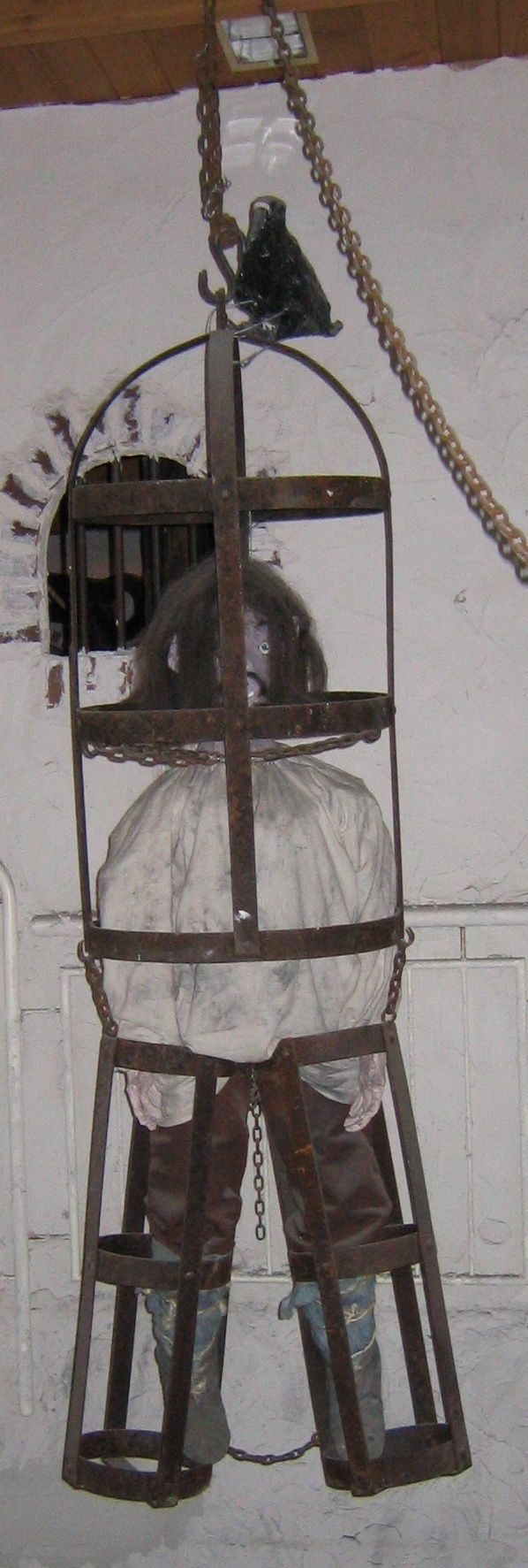 Cage at the torture museum in Freiburg im Breisgau